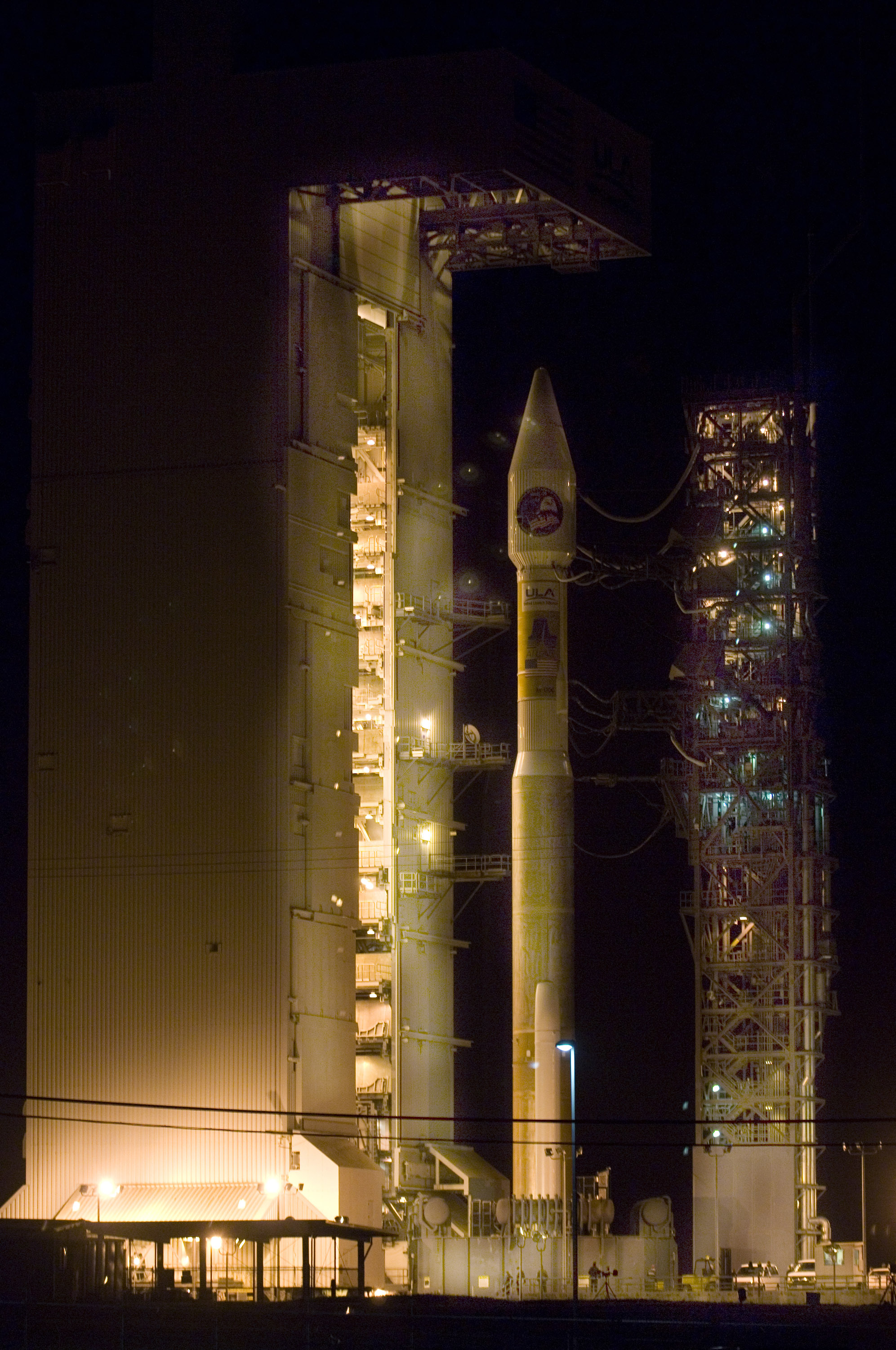 An Atlas V stands on Space Launch Complex-3 during its mobile servicing tower rollback on March 12. The Atlas launched at 3:01 a.m. PDT March 13 at Vandenberg Air Force Base, California. It carried a National Reconnaissance Office payload and was the first Atlas V to launch from the West Coast.